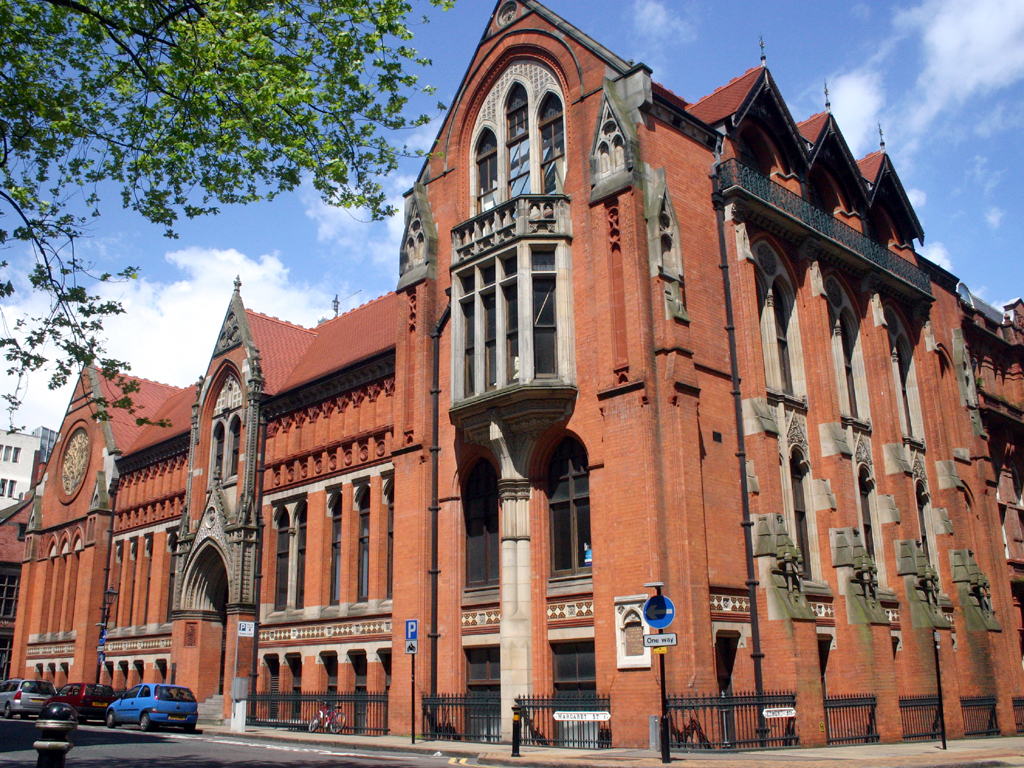 The former Birmingham School of Art building. Present day Birmingham Institute of Art and Design. On Margaret St, Birmingham, England.